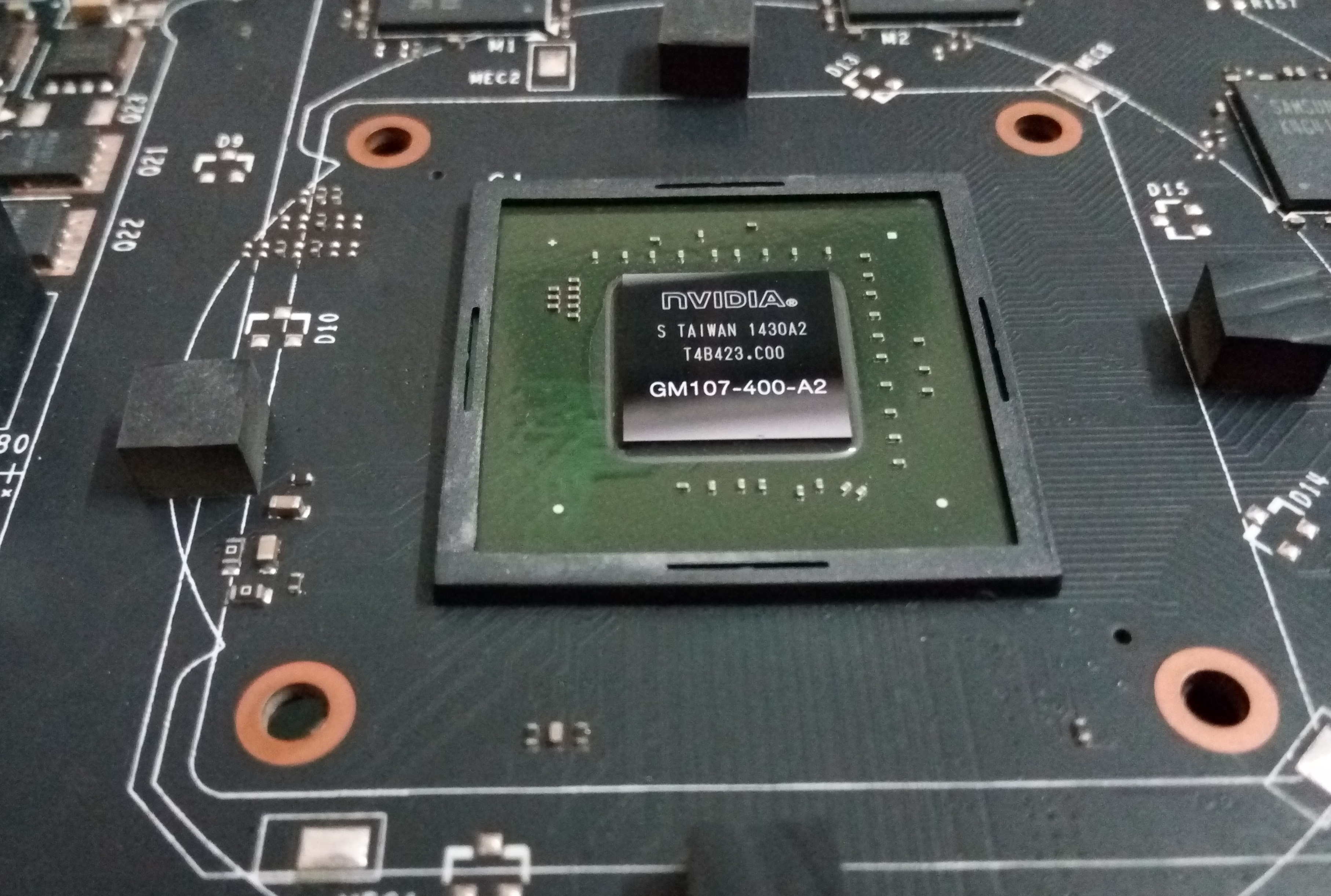 GTX 750 Ti - chip